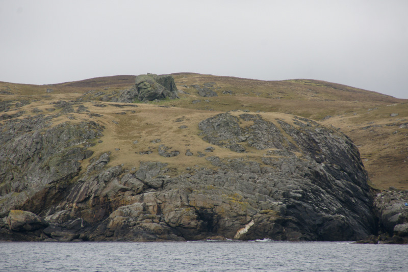 Coast of Lunna Ness south of Neegirth, near to Hamnavoe, Shetland Islands, Great Britain. The large stones on the hill, just in the adjoining square, are named Stofast.